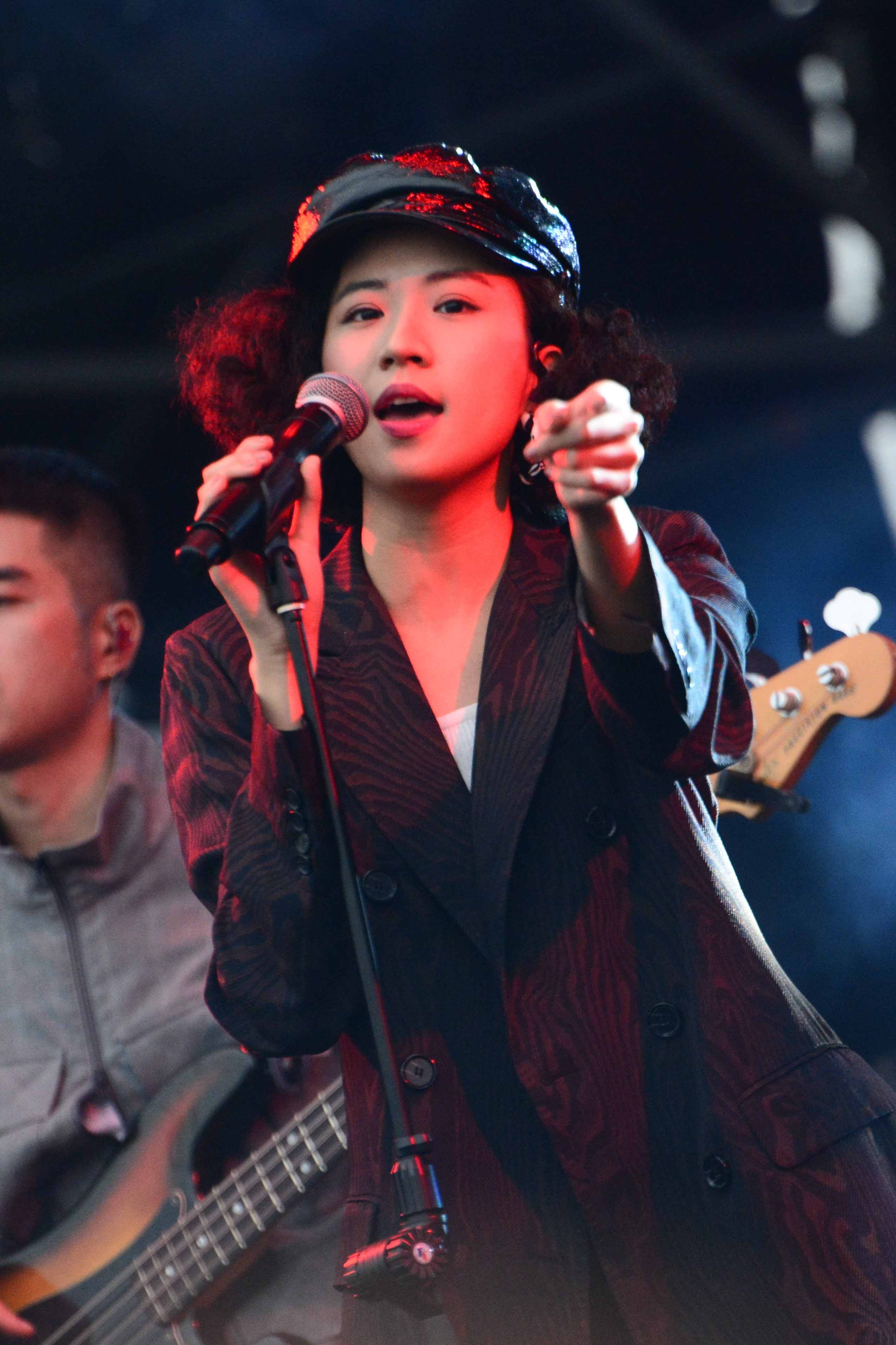 9m88 at 2019 Megaport Music Festival (resized for fitting in Wikipedia article)